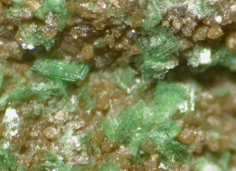 Zeunerite Locality: Cínovec (Cinvald), Krusné Hory Mts, Saxony & Ústí Region (Bohemia; Boehmen), Germany & Czech Republic Field of view 7 mm. Specimen and photo Leon Hupperichs.